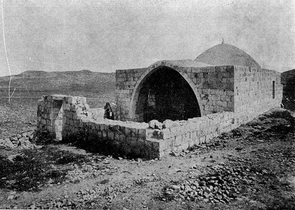 Joseph's Tomb